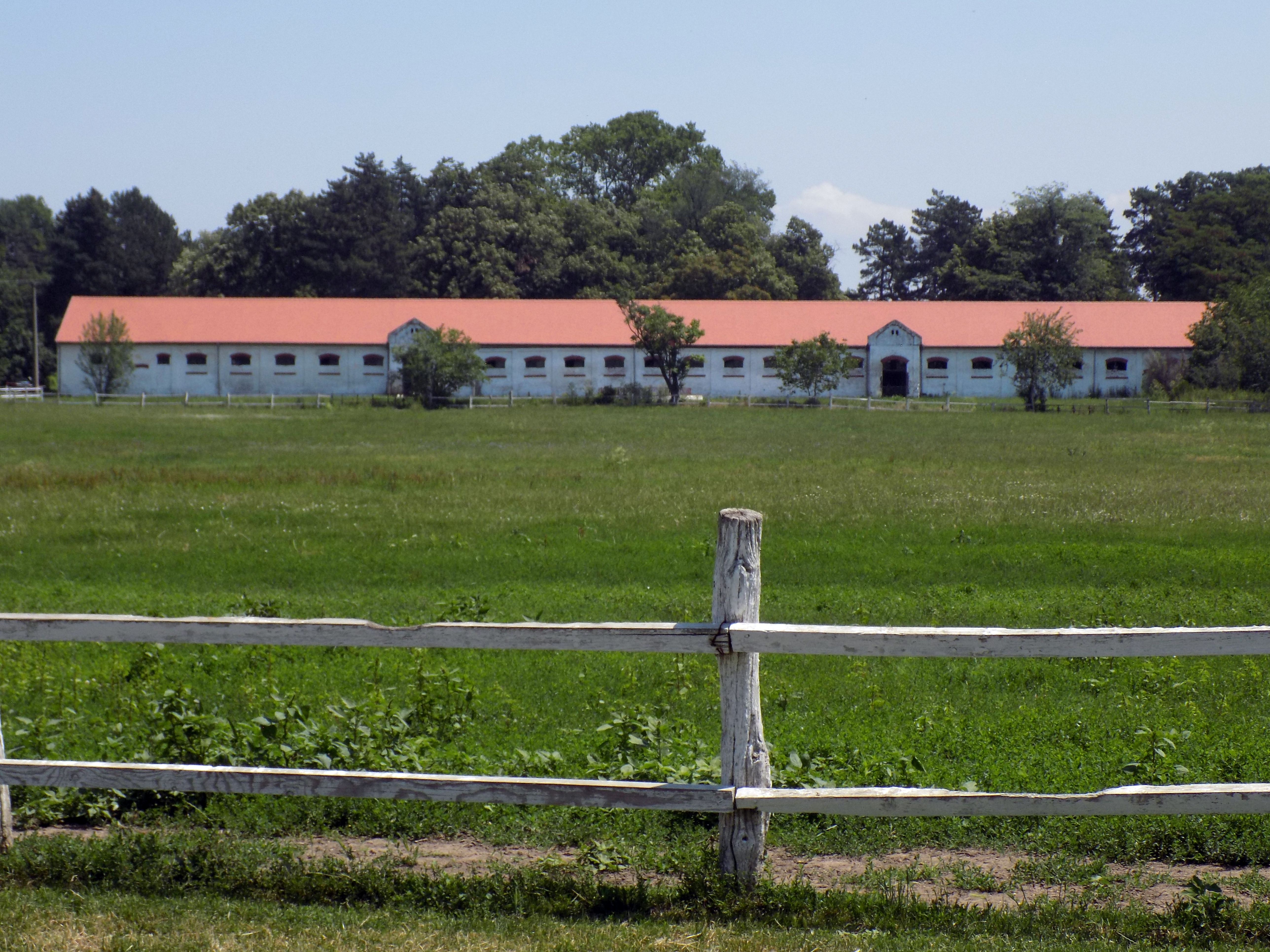 Ljubičevo Stable - stables and manege